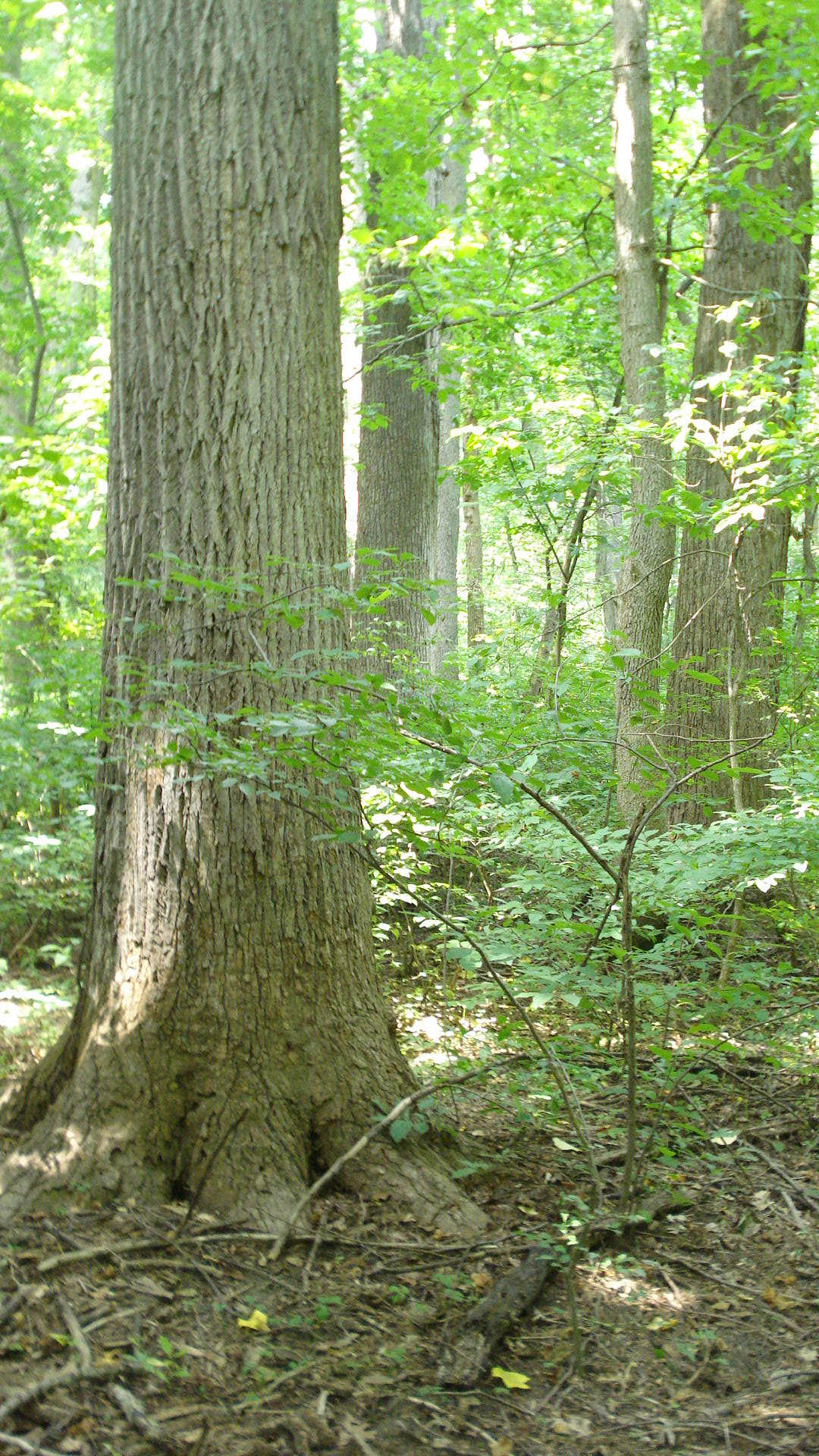 Liriodendron tulipifera in Belt Woods, St George's County, Maryland, MD